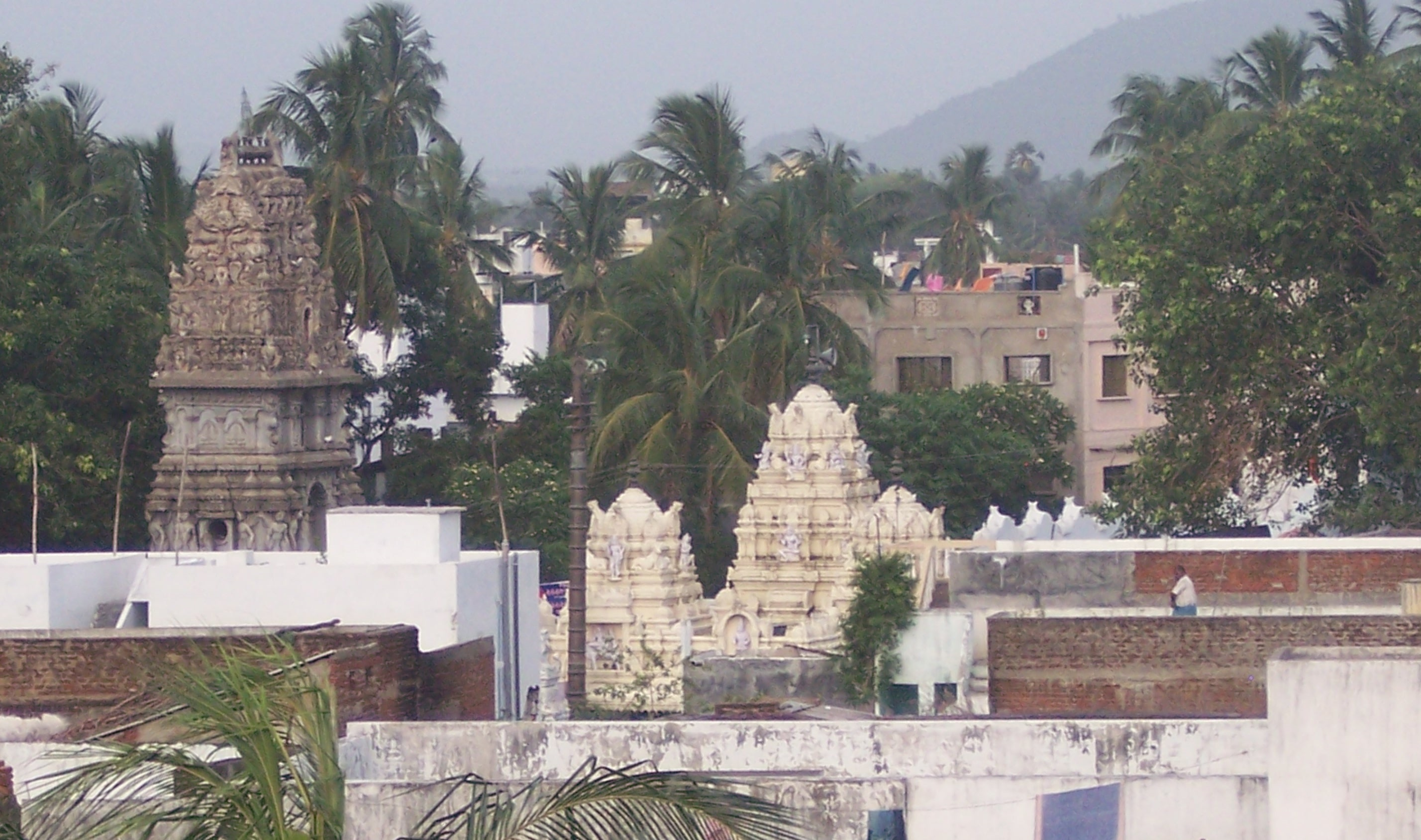 Kanyakaparameswari Temple in Anakapalle